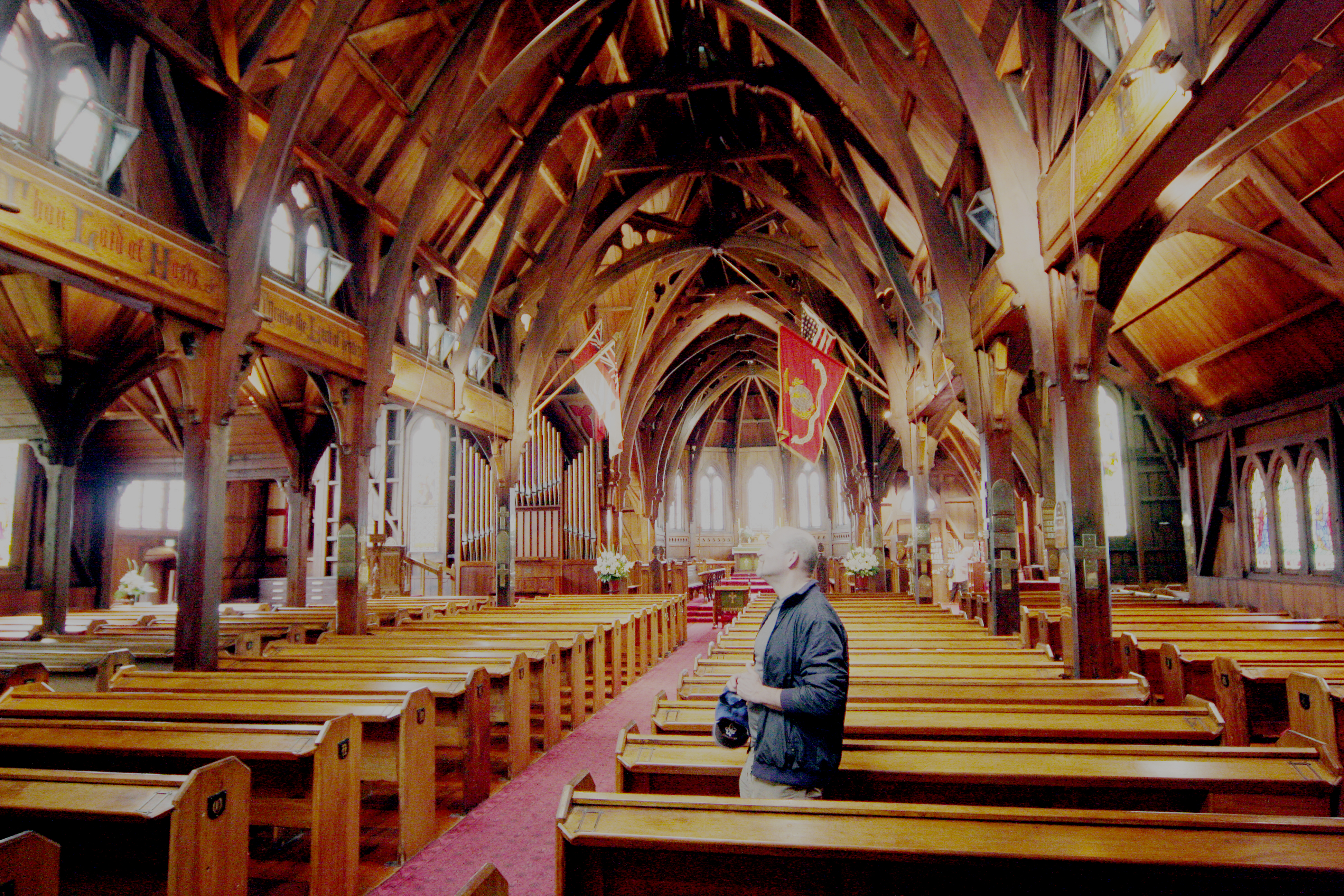 Old St. Paul's is a former cathedral in the Diocese of Wellington of the Anglican Church in Aotearoa, New Zealand and Polynesia. It is an example of 19th-century Gothic Revival architecture adapted to colonial conditions and materials. It is at 34 Mulgrave Street, Thorndon, Wellington, New Zealand, close to the New Zealand Parliament. Old St. Paul's was designed by Reverend Frederick Thatcher, then vicar of St. Paul's, Thorndon. The foundation stone was laid by Sir George Grey in August 1865. The church was consecrated by Bishop Abraham on Trinity Sunday, the 27th of May, 1866. It is constructed entirely from New Zealand native timbers, with stunning stained glass windows. The interior has been likened to the upturned hull of an Elizabethan galleon - exposed curving trusses and kauri roof sarking.